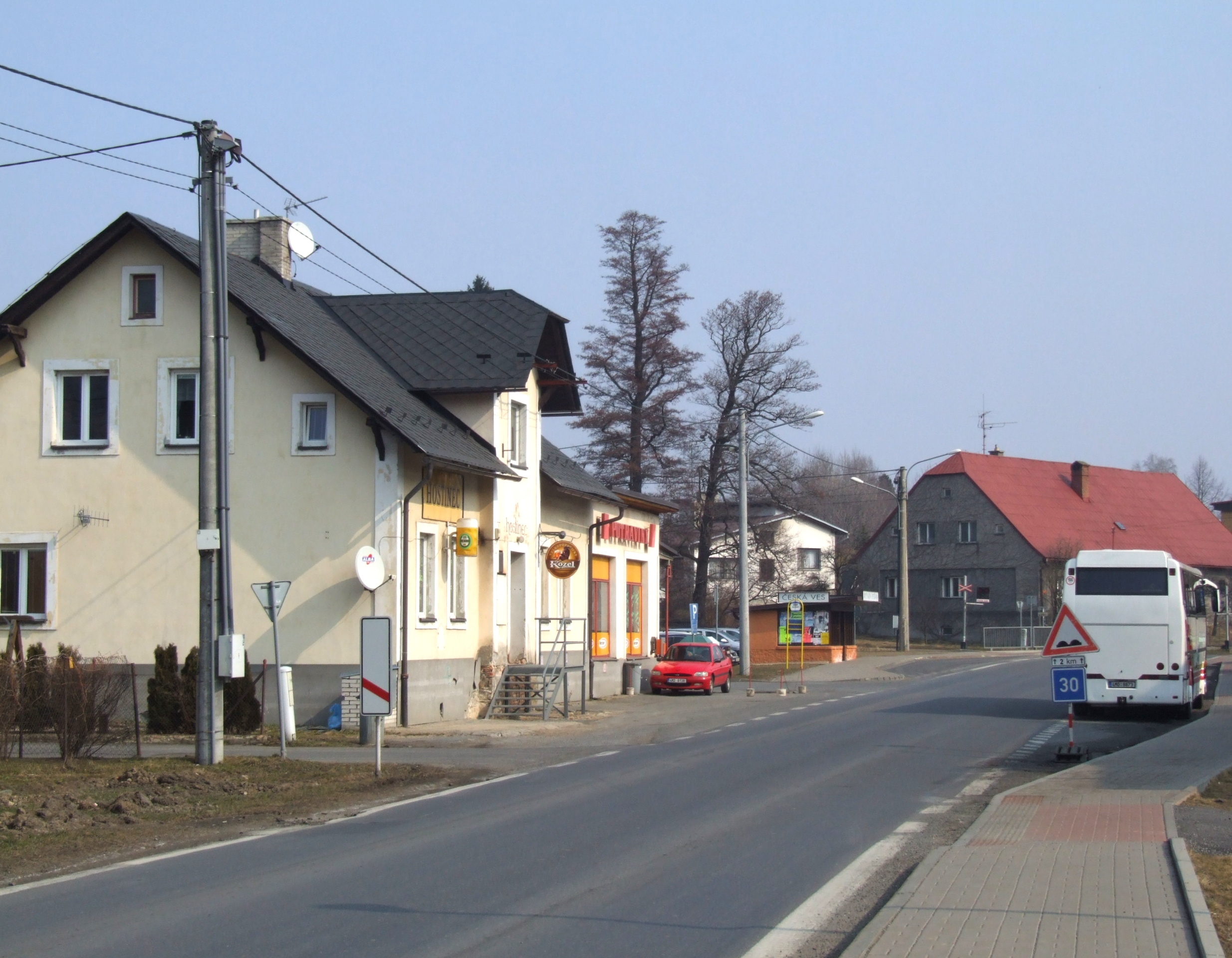 Česká Ves - main road (nr 44)